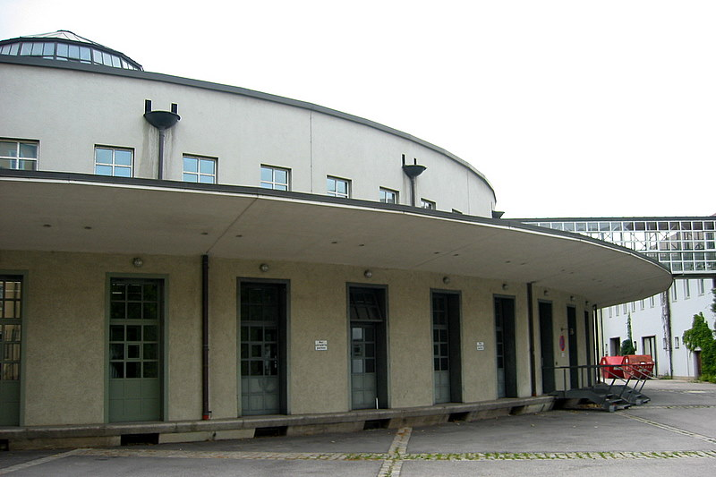 Paketzustellamt München